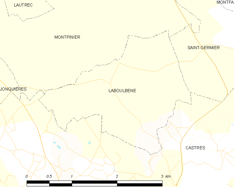 Map of French municipality Laboulbène